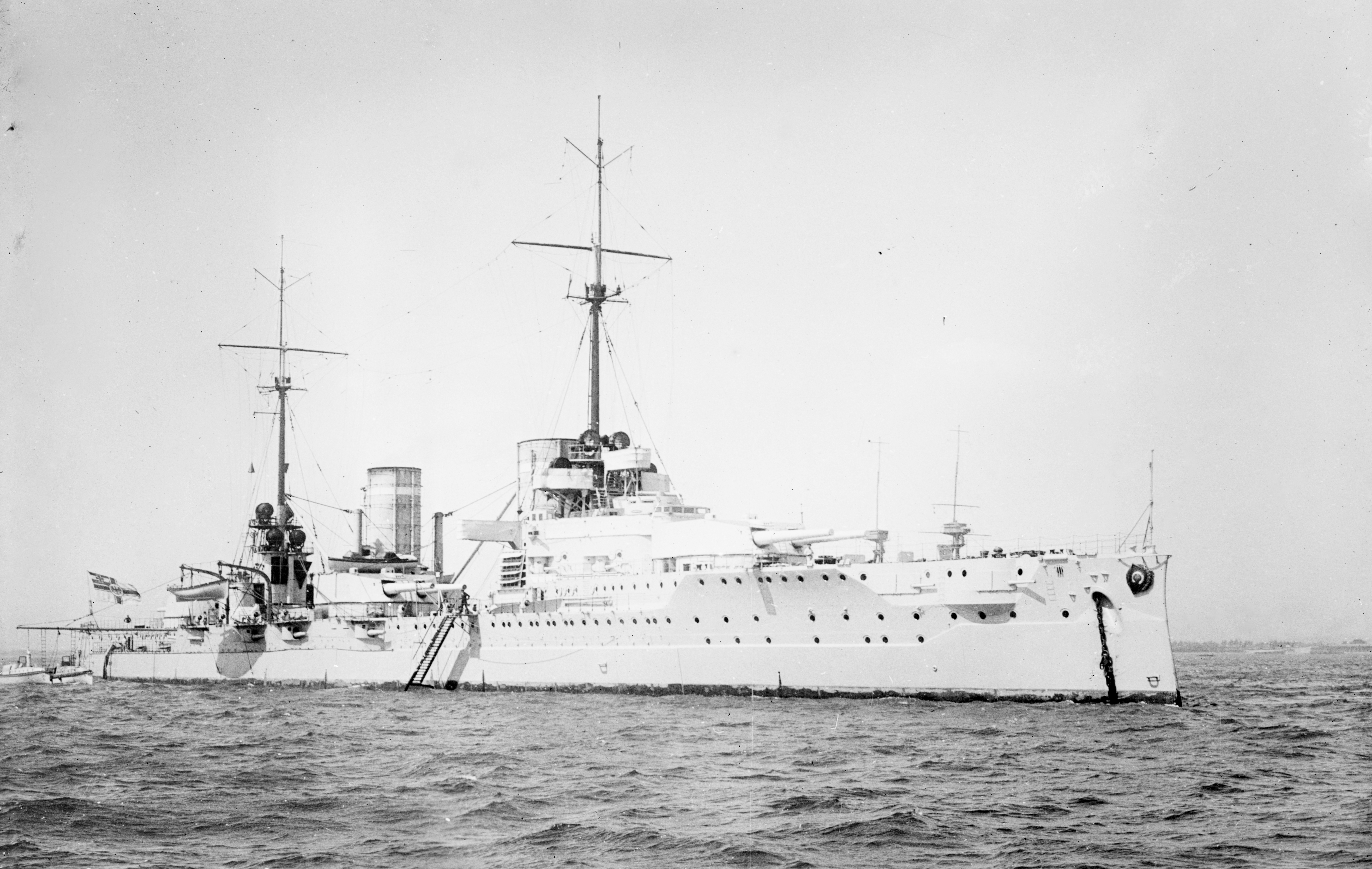 The German battlecruiser SMS Von der Tann at anchor. The photo was probably taken during Von der Tann´s cruise to South America in 1911.